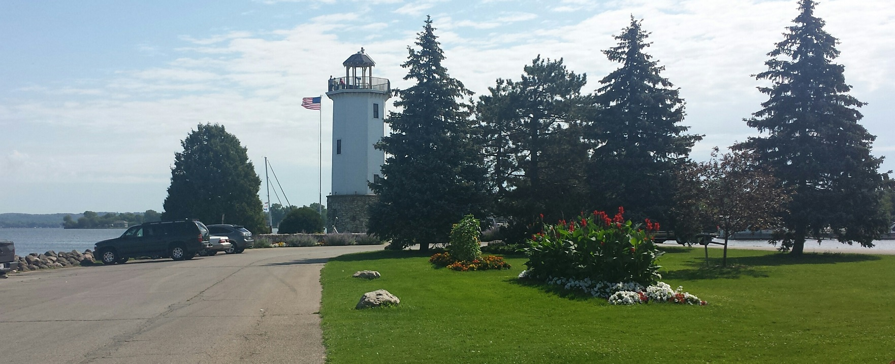 The lighthouse at the southern tip of Lake Winnebago, in Lakeside Park in Fond du Lac, Wisconsin.